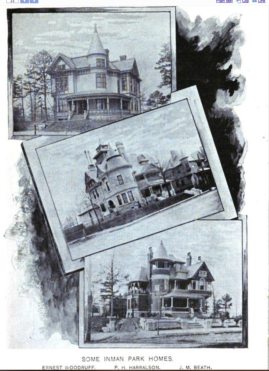 Sketches of three Inman Park homes: Ernest Woodruff, P.H. Harralson, J.M. Beath